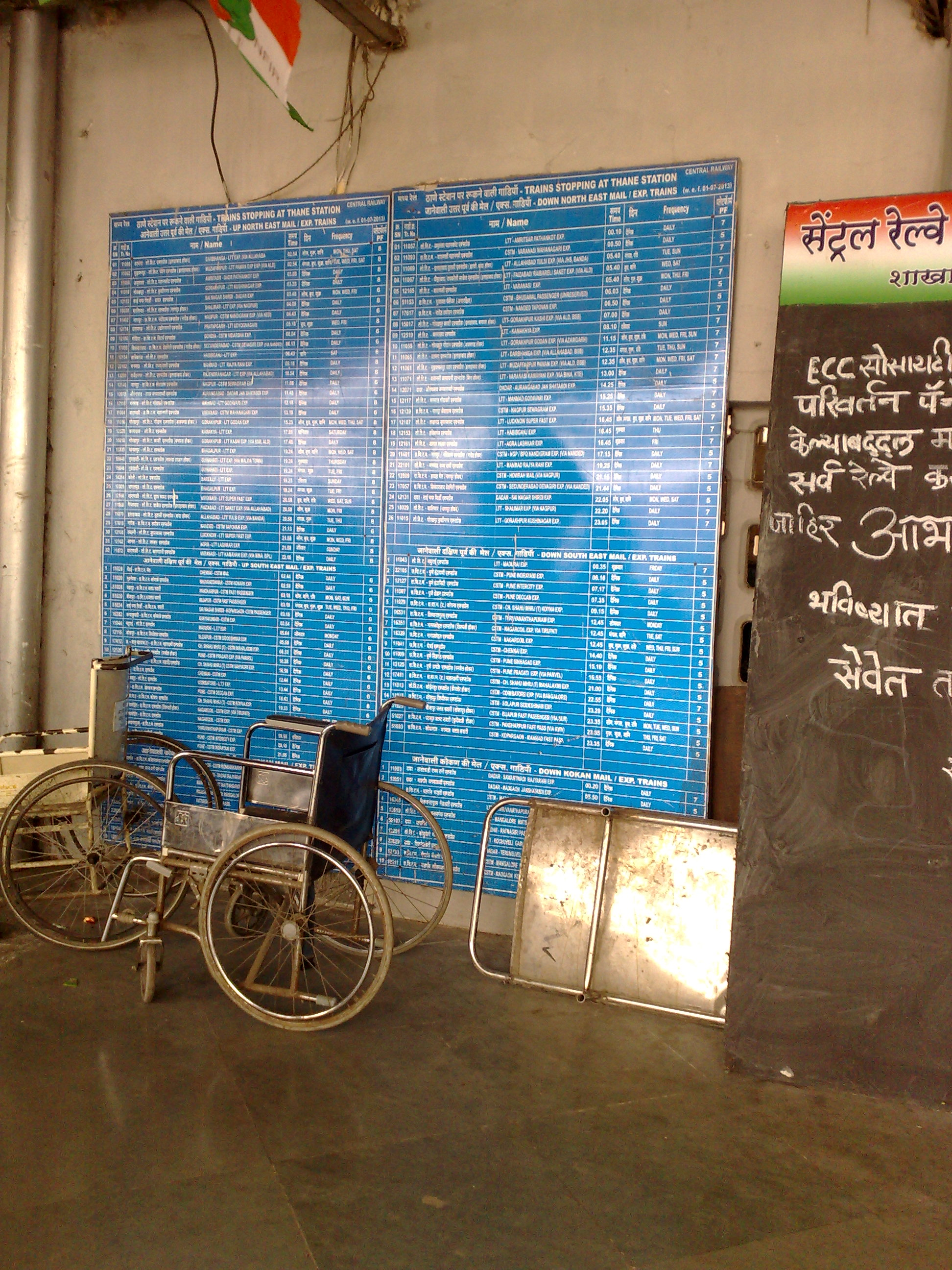 Out station train infoboard at Thane Station